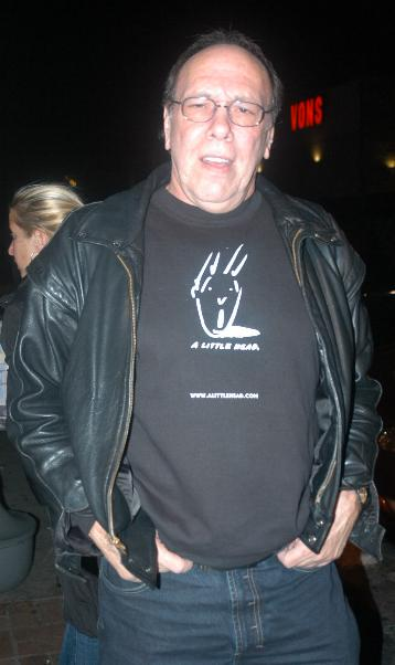 Roy Karch at Porn Star Karaoke event on December 13, 2005.